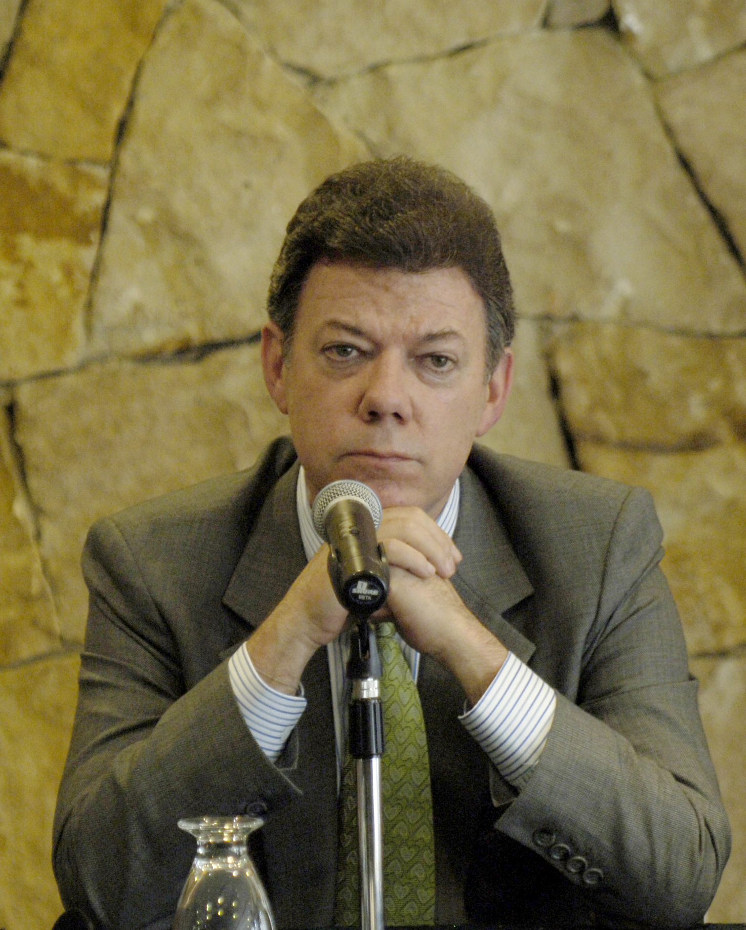 Defense Minister of Colombia Santos